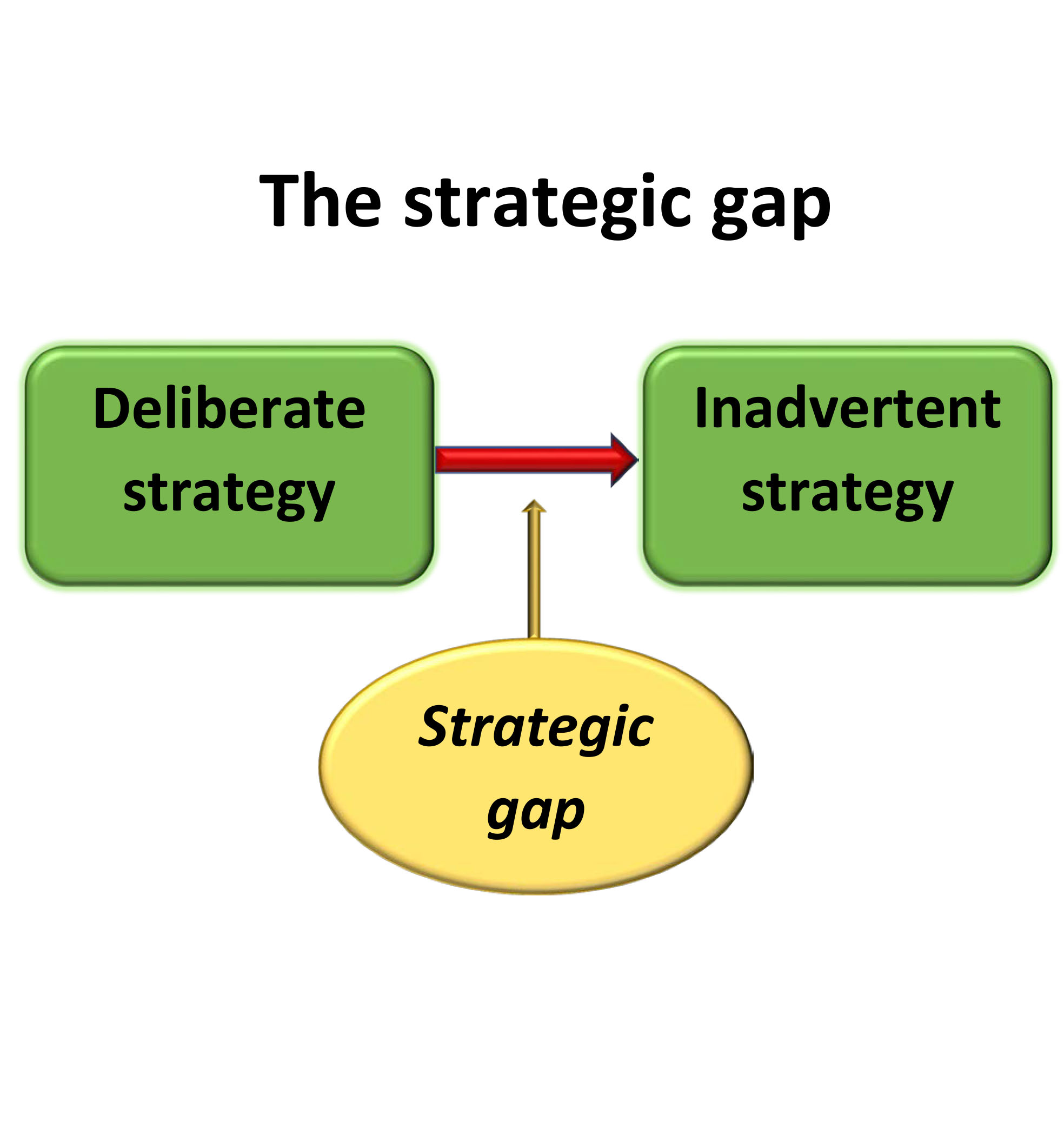 diagrammatic view of the strategic gap